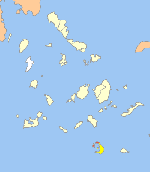 Locator map of Thira municipality (Δήμος Θήρας, yellow) and Oia community (Κοινότητα Οίας) in Cyclades prefecture (Νομός Κυκλάδων) in Greece.